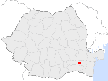 Location of Slobozia in Romania.